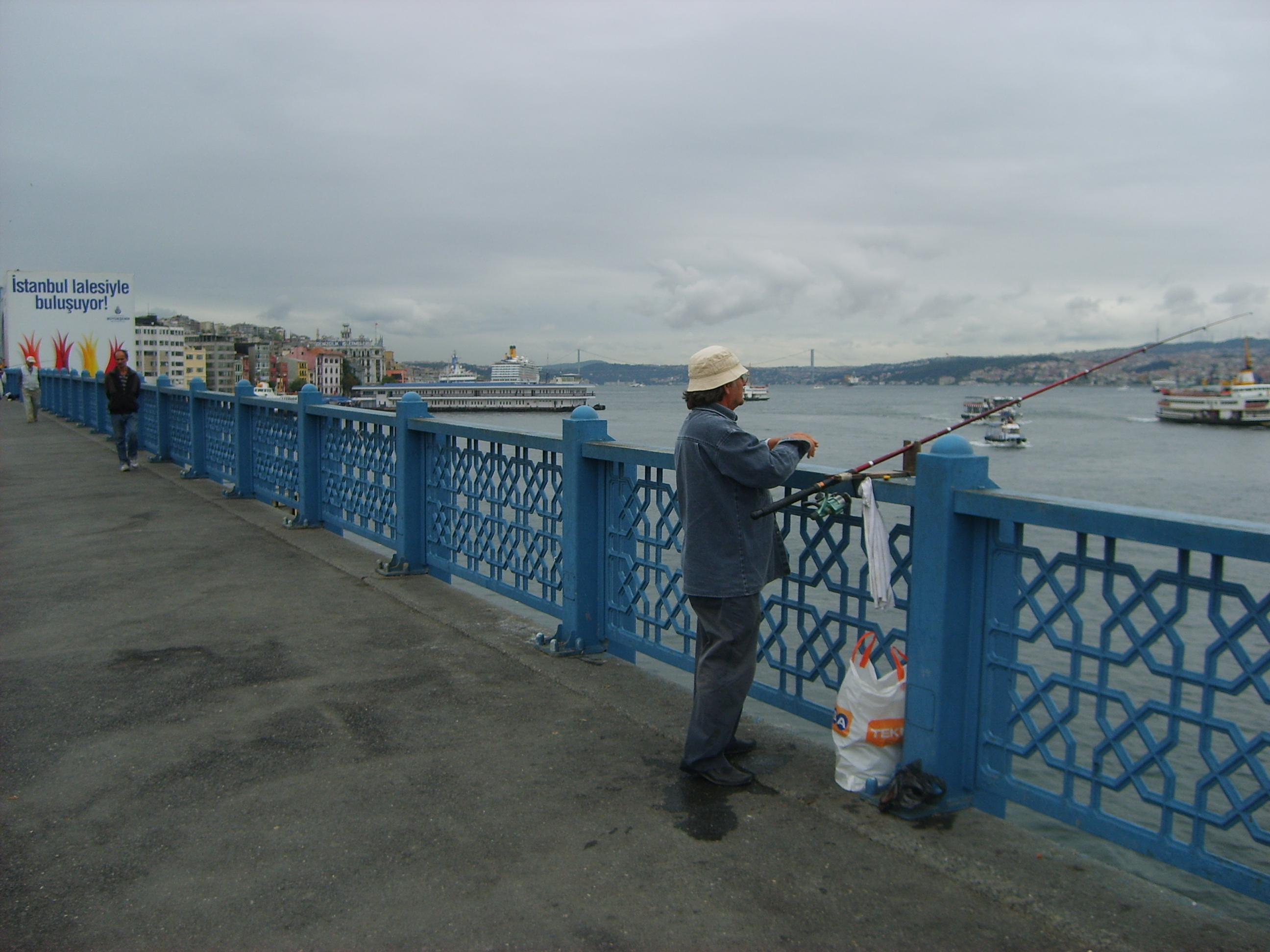 A fisherman on Galata Bridge, in Istanbul